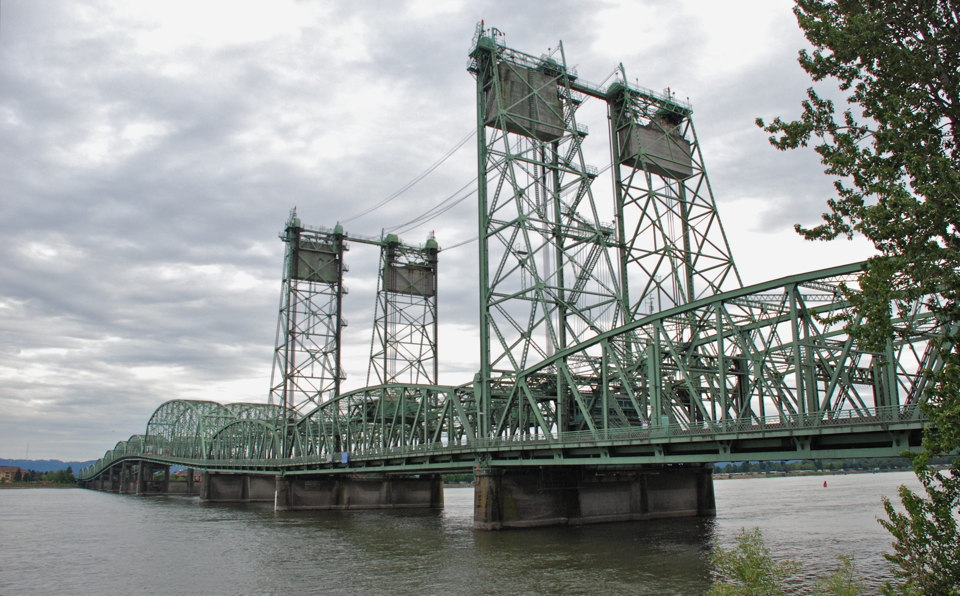 The Interstate Bridge, across the Columbia River, carries the Interstate 5 freeway and connects Portland, Oregon with Vancouver, Washington. This photo, taken from the river's north shore, in Vancouver, shows almost the full length of the bridge, which is actually two bridges side by side: one built in 1916–17 (the one closest to the photographer) and now used for northbound traffic only, the other a matching one built in 1957–58 and carrying southbound traffic only. The two bridges have vertical-lift sections at the northern end. The "humped" section visible at left, in the southern half of the bridge, was included in the 1958 span when built, and was added to the 1917 span in 1959. (Note: Some perspective distortion is present in this wide-angle photograph.)